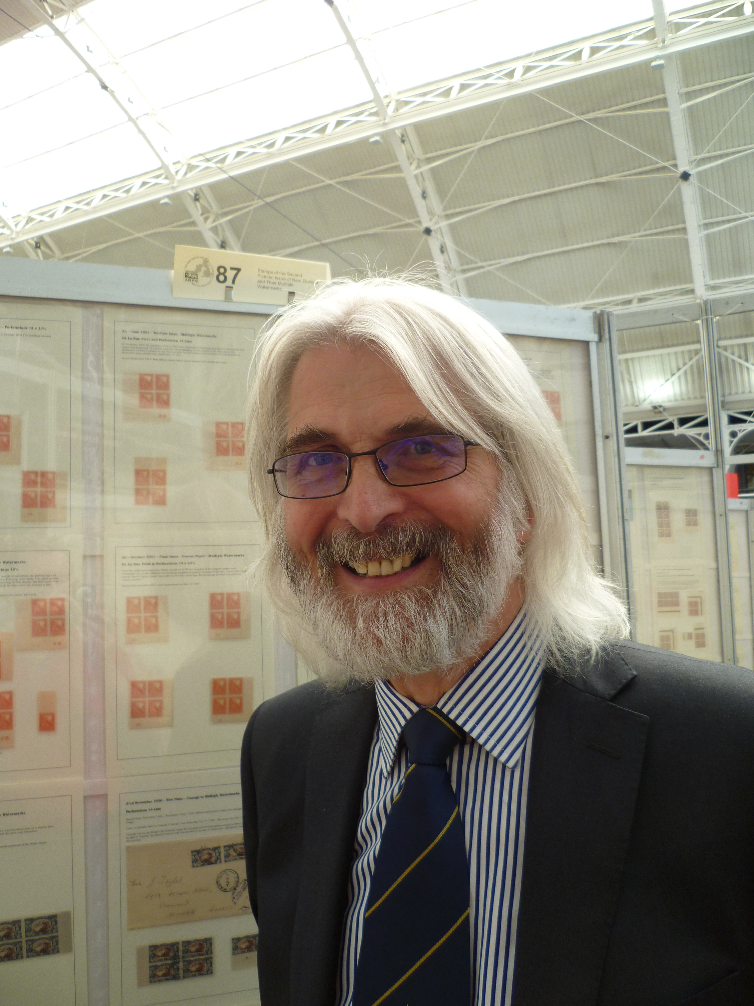 Hugh Jefferies